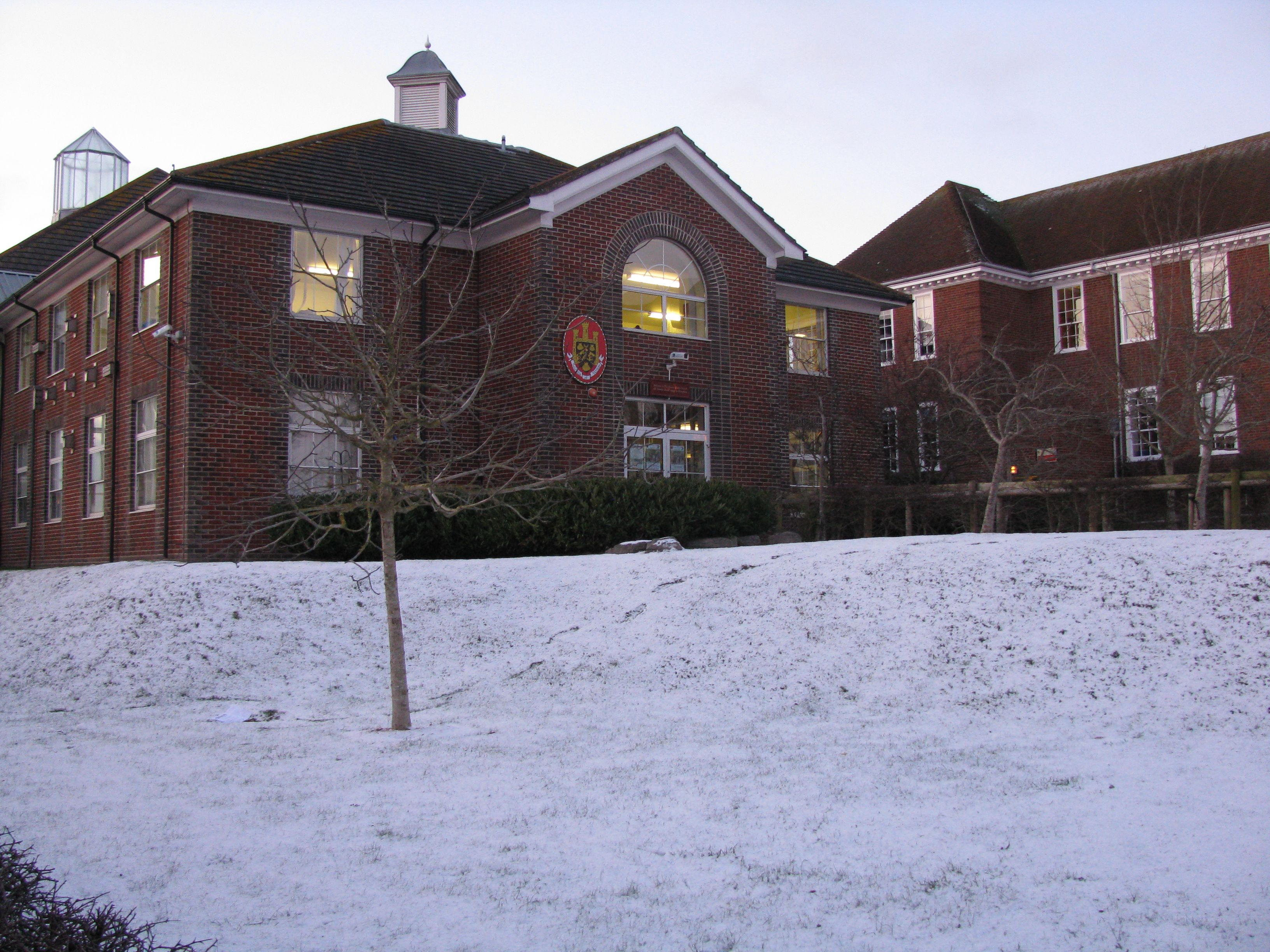 The Front of The Thomas Hardye School Central Block